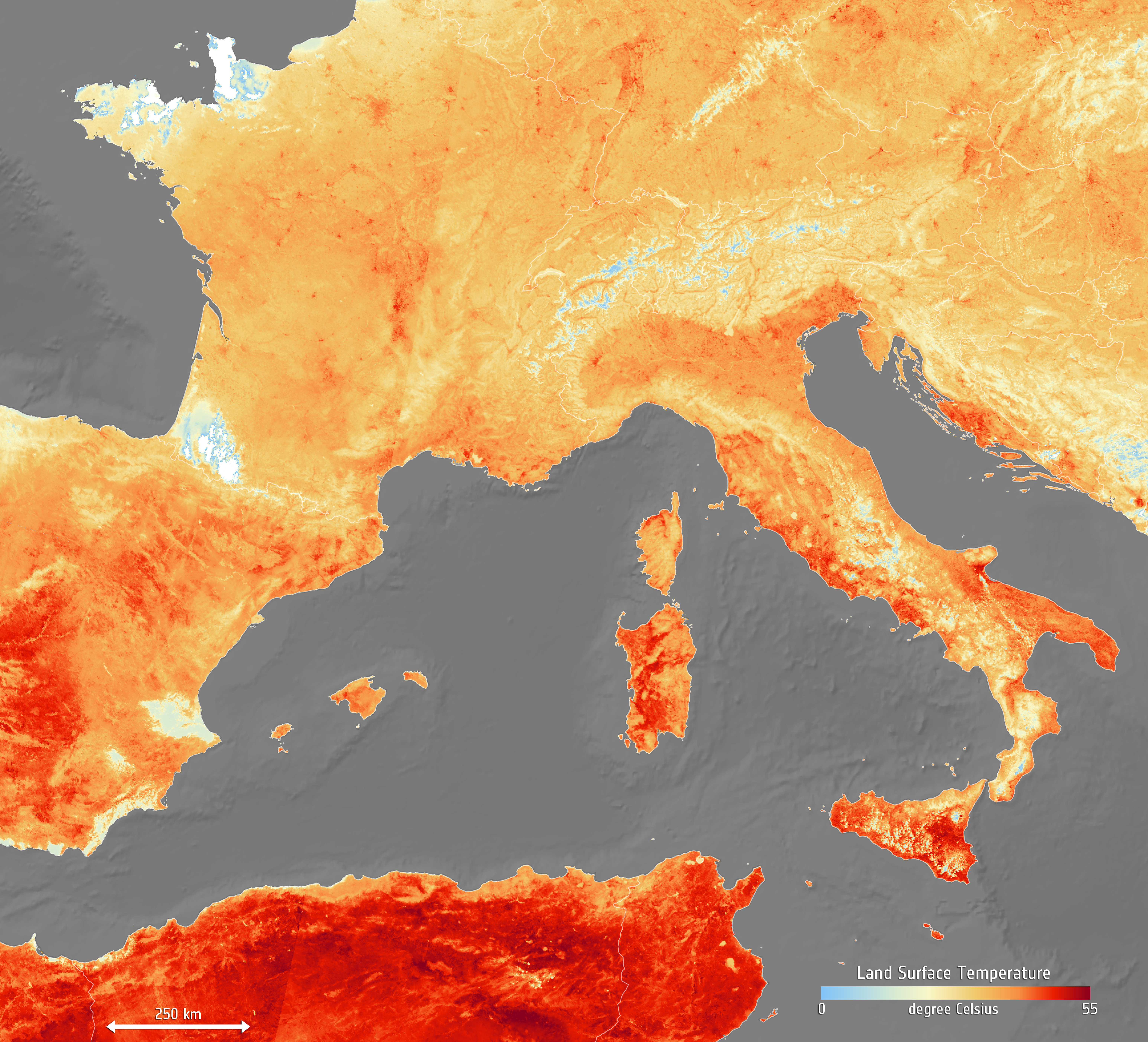 With some places expecting to be hit with air temperatures of over 40°C in the next days, much of Europe is in the grip of a heatwave – and one that is setting record highs for June. According to meteorologists this current bout of sweltering weather is down to hot air being drawn from north Africa.This map shows the temperature of the land on 26 June. It has been generated using information from the Copernicus Sentinel-3’s Sea and Land Surface Temperature Radiometer, which measures energy radiating from Earth’s surface in nine spectral bands – the map therefore represents temperature of the land surface, not air temperature which is normally used in forecasts. The white areas in the image are where cloud obscured readings of land temperature and the light blue patches are either low temperatures at the top of cloud or snow-covered areas.Countries worst hit by this unusual June weather include Spain, France, Germany, Italy and Poland. In many places heat warnings have been issued and cities such as Paris have connected fountains and sprinklers to hydrants to help give people some relief. Wildfires in Catalonia, said to be the worst in two decades, have already ripped across 5000 hectares of land and are being blamed on the heat and strong winds.